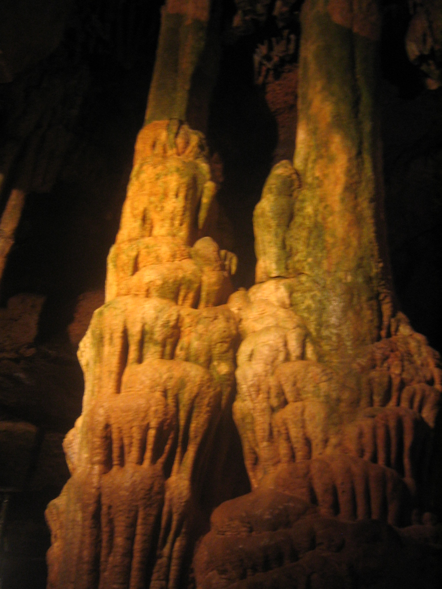 Picture from inside Onyx Cave.